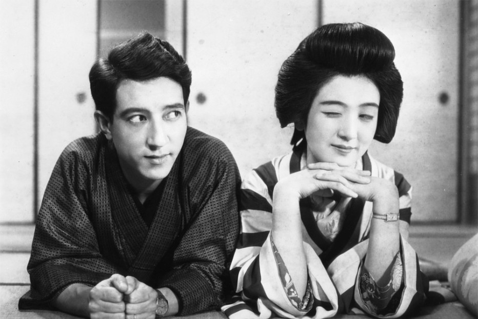 Ureo Egawa and Hiroko Kawasaki in Ureshii koro (嬉しい頃) directed by Hiromasa Nomura - 1933